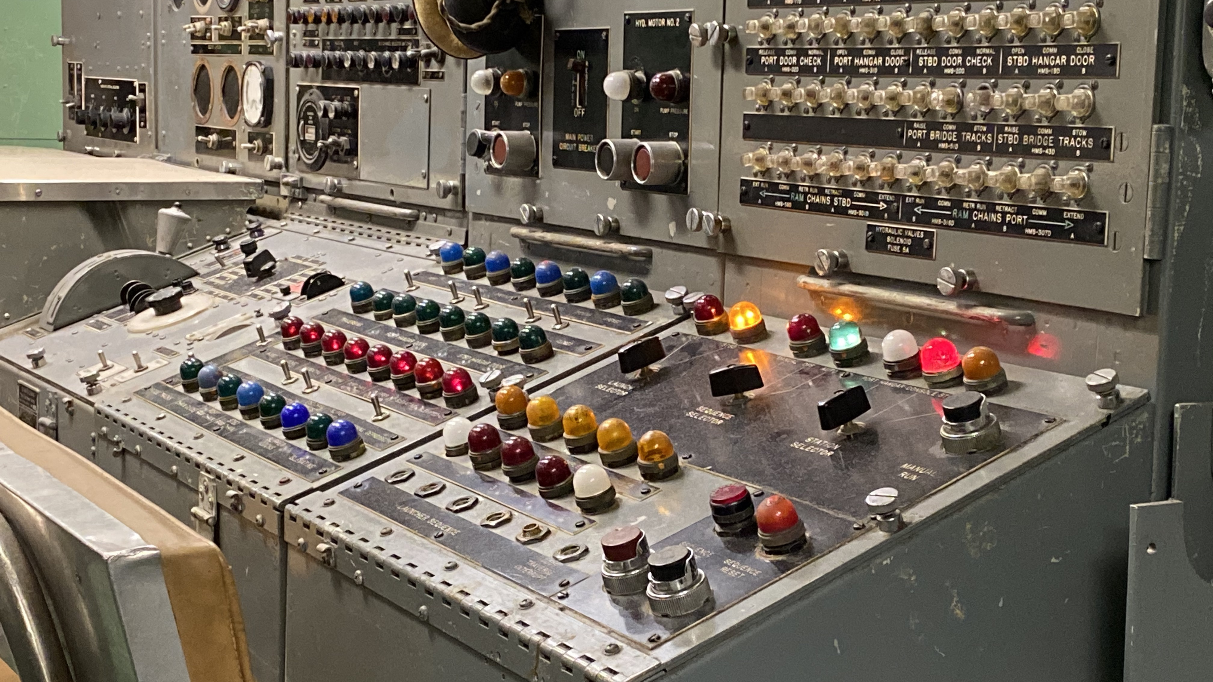 This is one of two areas where the USS Growler would launch its Regulus I or II nuclear cruise missile.